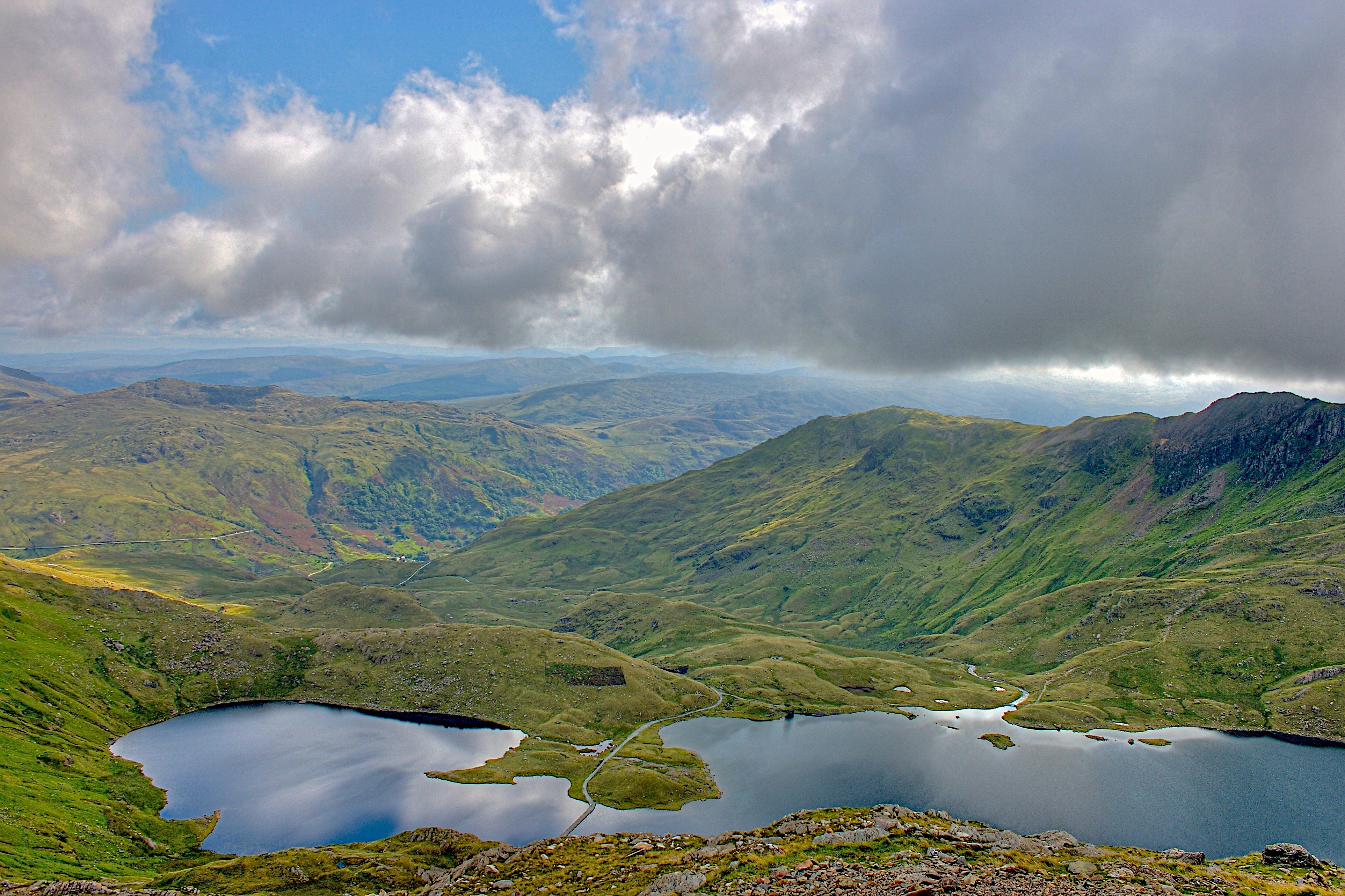 Looking out from the approach to Crib Goch from Pen Y Pas, over Llyn Llydaw.